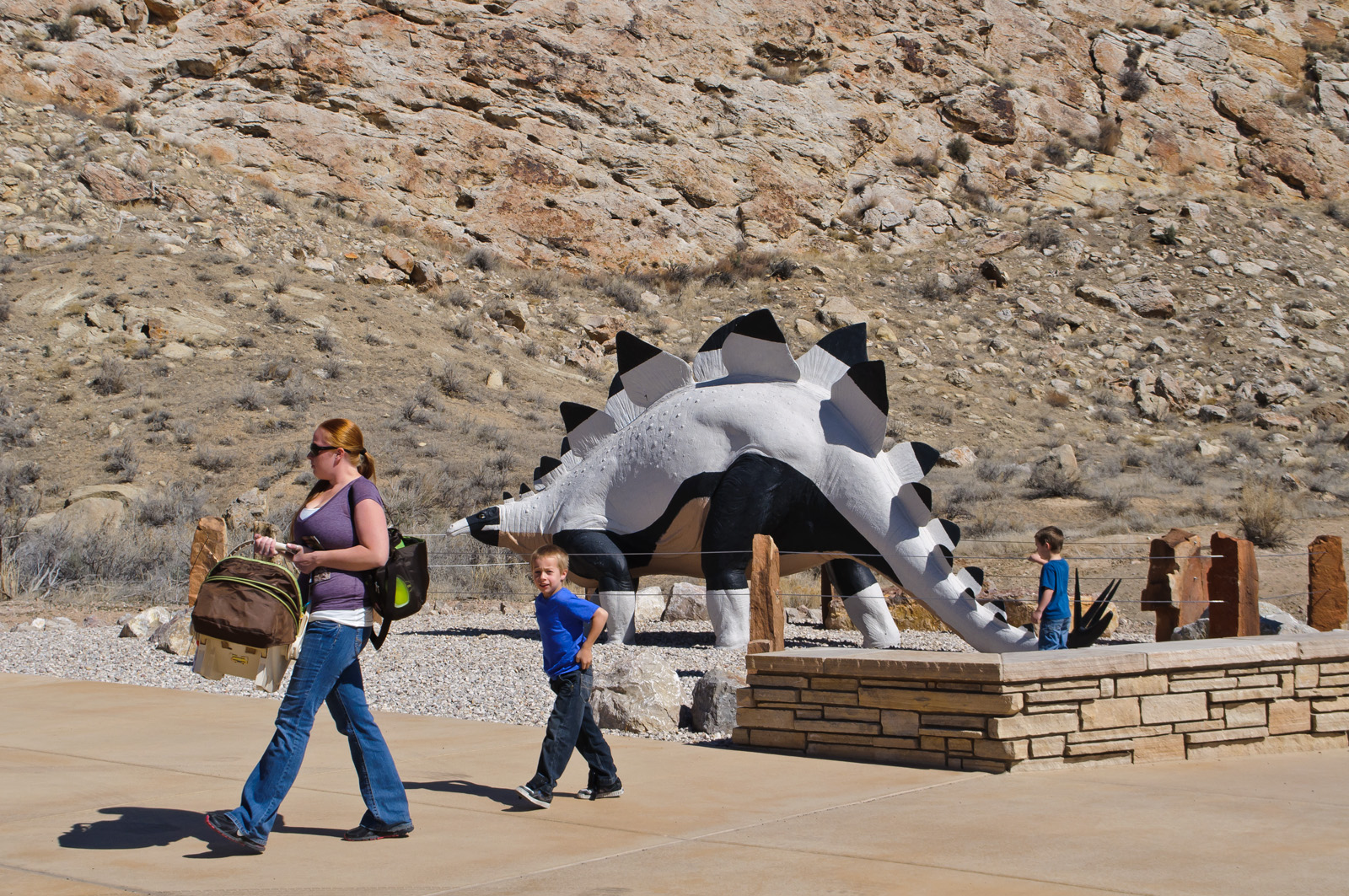 Dinosaur National Monument is located along the Utah-Colorado border. The Utah portion, located just outside Jensen, is home to the famous quarry where a large number of dinosaur bones were found and are still on display. This Stegosaurus model was built for the New York World's Fair of 1964. Now it is a prop for the visitor center; the visitor center, and the quarry nearby, had been completely rebuilt and re-opened in October 2011. The quarry's dinosaurs are 149 million years old, and include the Stegosaurus, though it is not the dominant species here; the most common species here is Camarasaurus, large plant-eating sauropod.